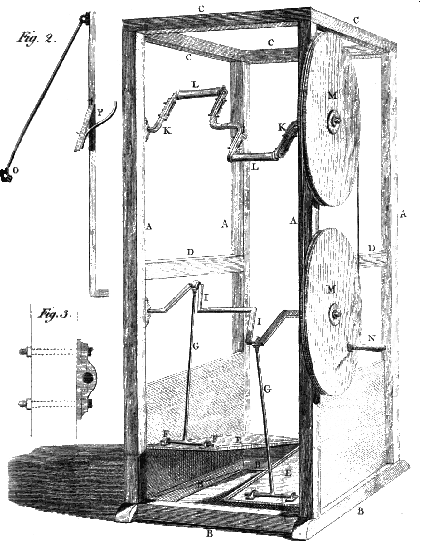 Mechanism of the Gymnasticon, invented by Francis Lowndes in 1797